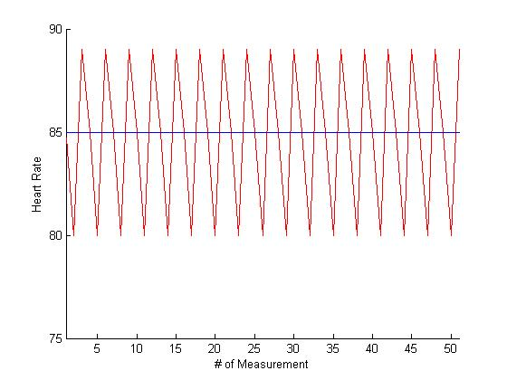 heartrate